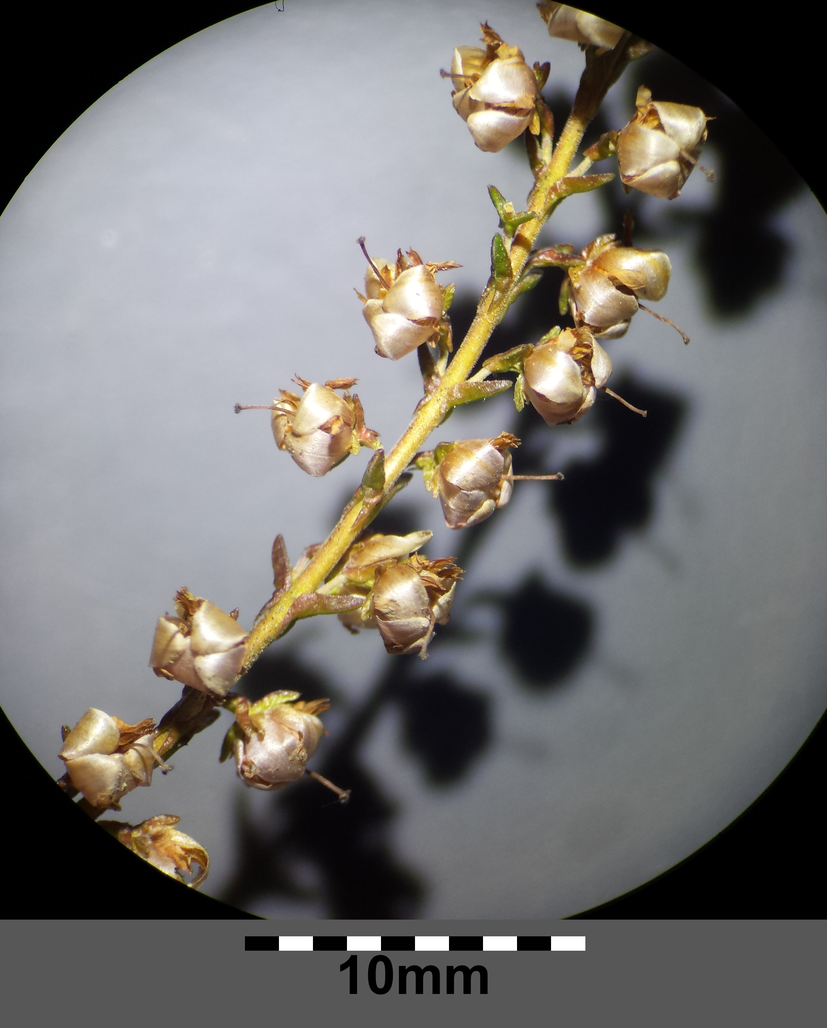 Infructescence Taxonym: Calluna vulgaris ss Fischer et al. EfÖLS 2008 ISBN 978-3-85474-187-9 Location: Rohrwald, district Korneuburg, Lower Austria - ca. 300 m a.s.l. Habitat: wood